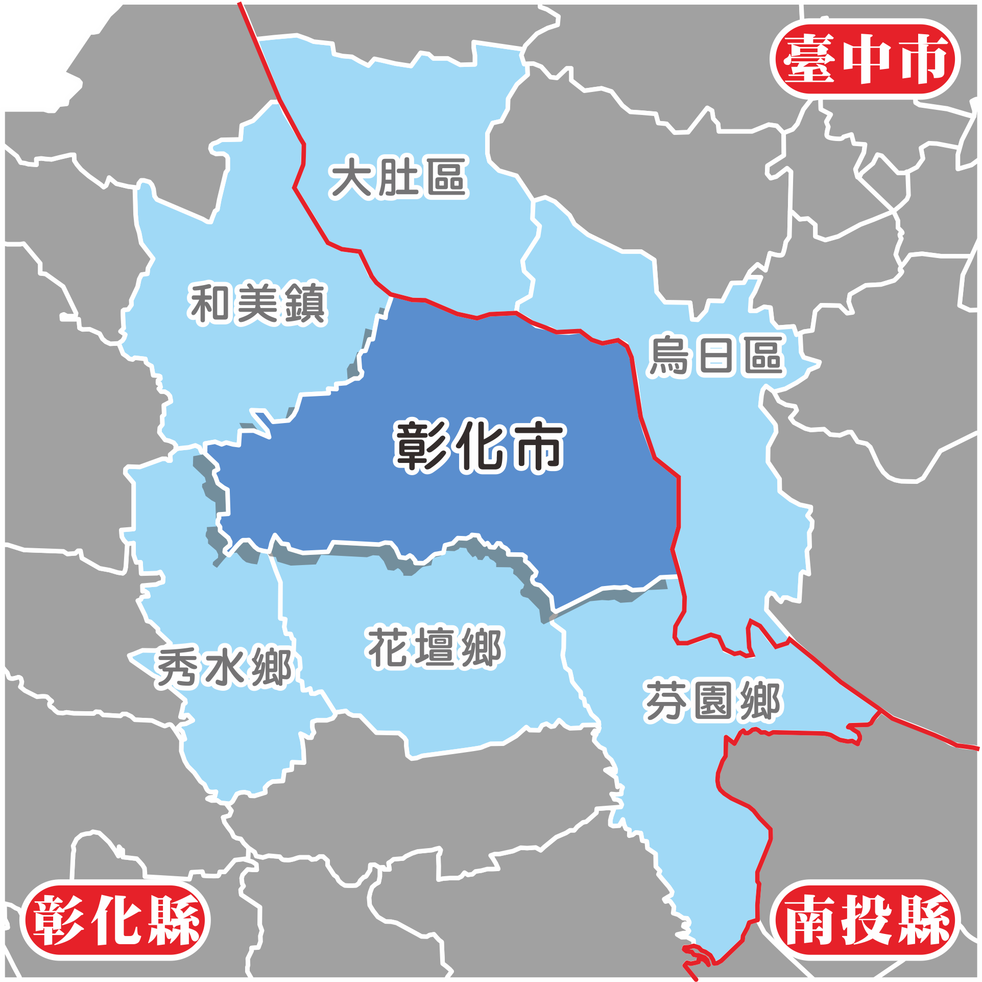 Changhua City